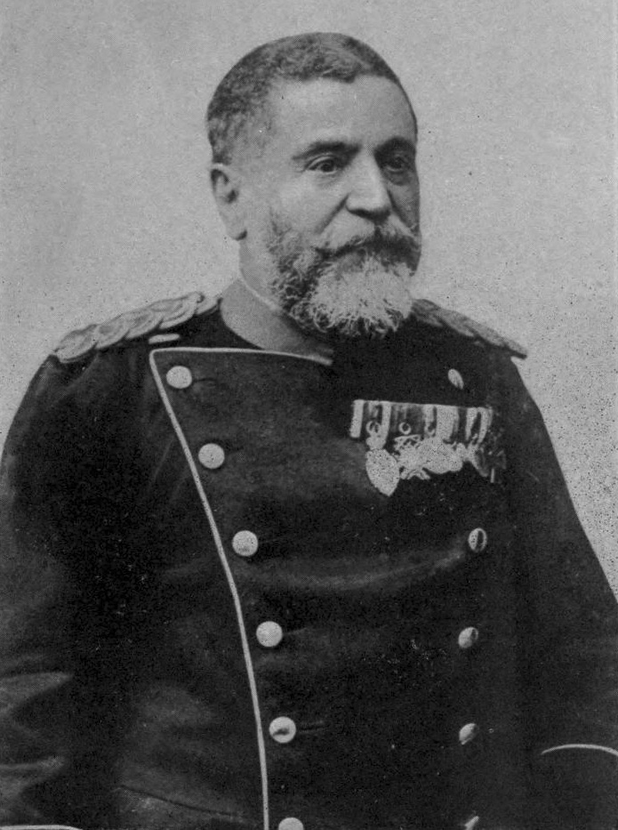 Photograph of Radomir Putnik in Serbia; her people, history and aspirations, 1915)